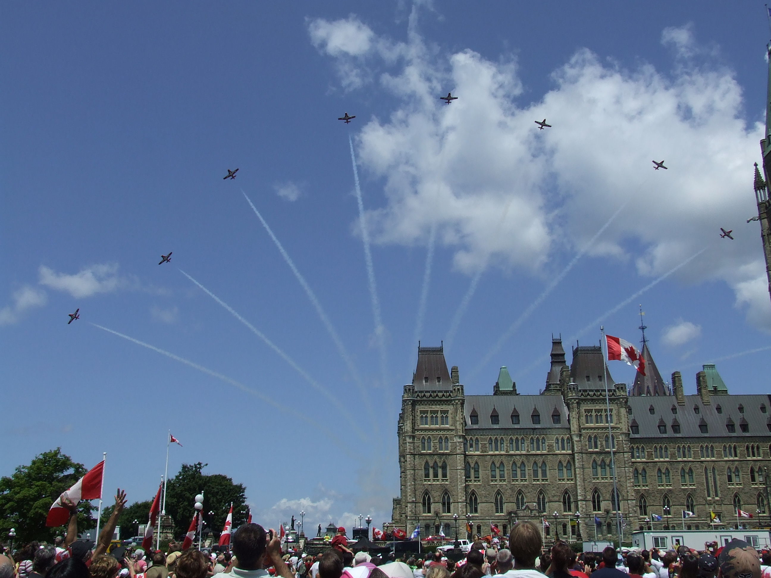 Snowbirds over Parliament in Ottawa. July 1, 2008.